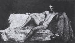 Artist R.G. Harper Pennington (1854–1920) in one of his paintings depicted a nude Robert Gould Shaw II (1872–1930) as the character "Little Billee" from the bohemian novel Trilby (1894) by George du Maurier. This painting hung in the bedroom of Henry Symes Lehr, the homosexual husband of Elizabeth Wharton Drexel.